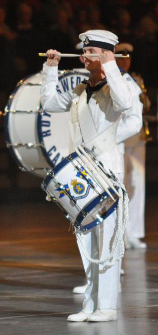 Swedish Navy Cadet Band Drummer 2010